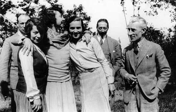 From left to right: Hélène Jourdan-Morhange (1888-1961), Madeleine Grey (1896-1979), Germaine Malançon and Maurice Ravel (1875-1937). Note: Germaine Malançon: 1st marriage with Gaston Bergery (1892-1974); 2nd marriage with Georges Boris (1888-1960).